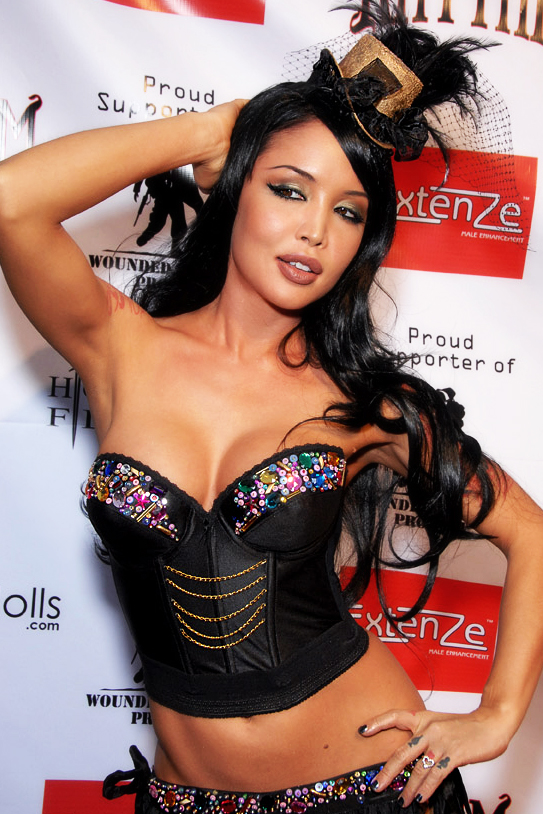 Masuimi Max hosting an event at the Playboy Mansion on May 16, 2009. Photo by Glenn Francis of